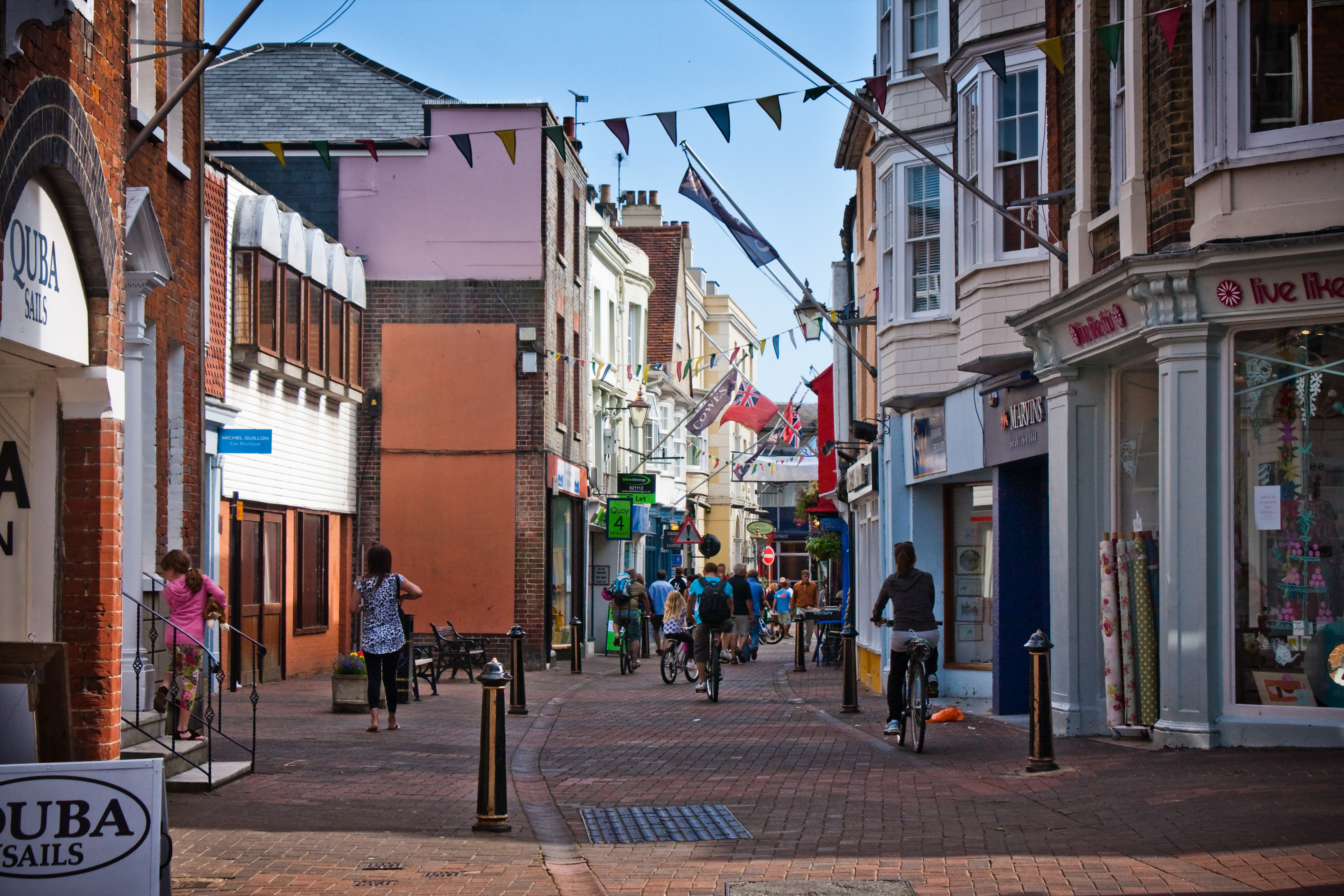 Cowes High Street, Cowes, Isle of Wight